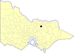 Location of the City of Benalla (pre-1994) within Victoria.